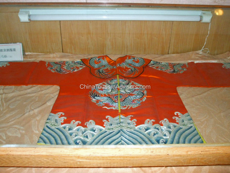 A display of a red Peking opera "Dragon Robe" at the Chang'an Grand Theatre in Beijing